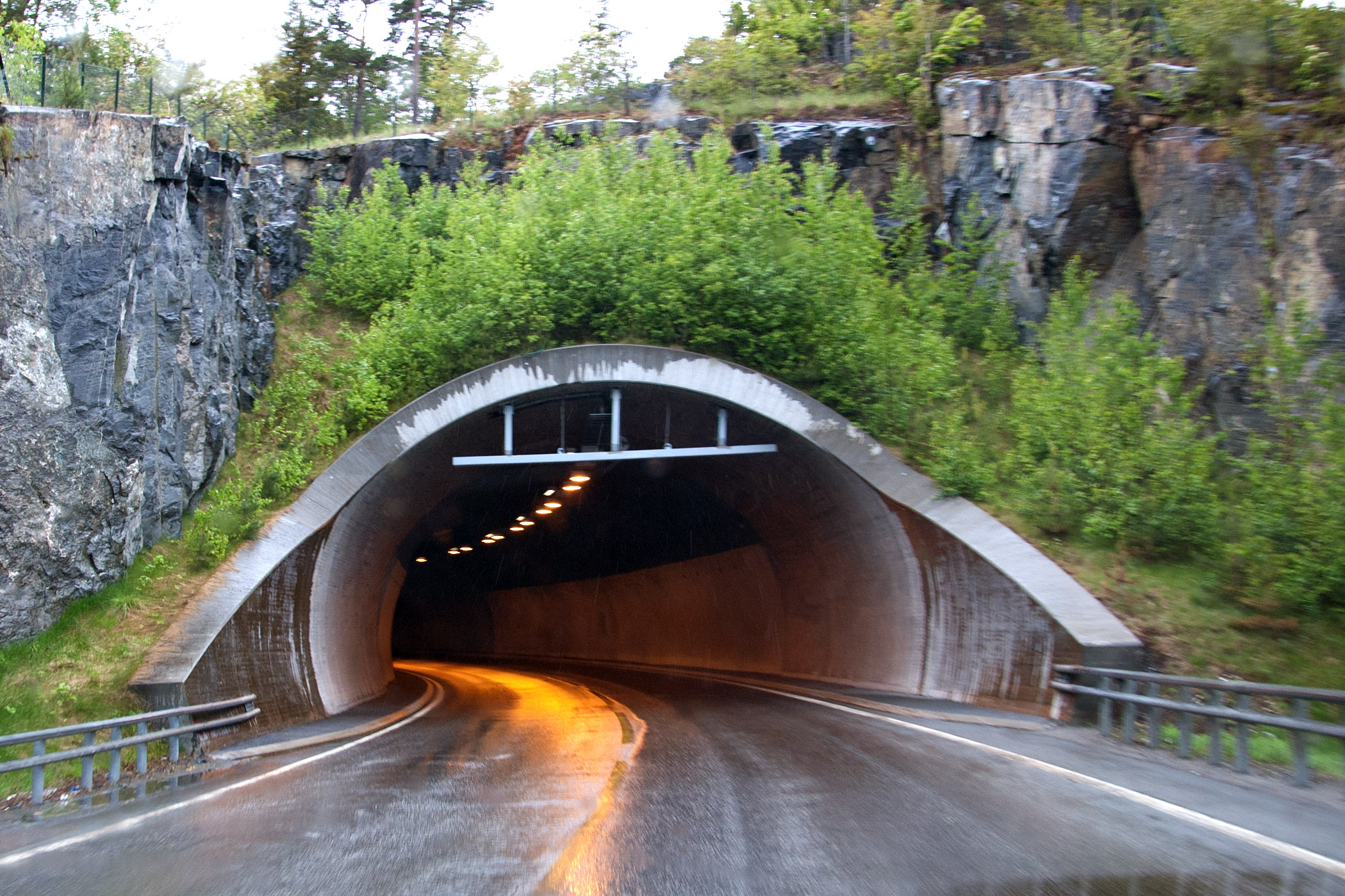 Lonatunnelen (Frydensborgtunnelen), a road tunnel on county road 38 in Kragerø, Telemark, Norway.